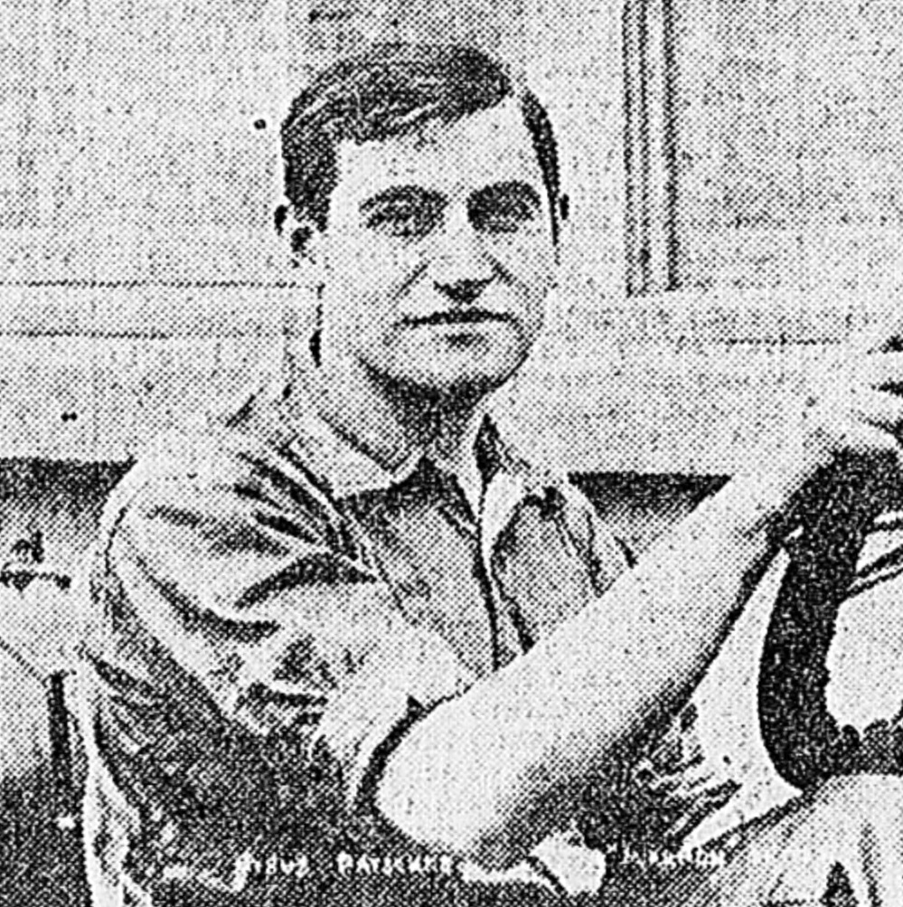 Cyrus Patschke was racecar driver in the 1911 Indianapolis 500. This is a 1911 newspaper publicity photo.